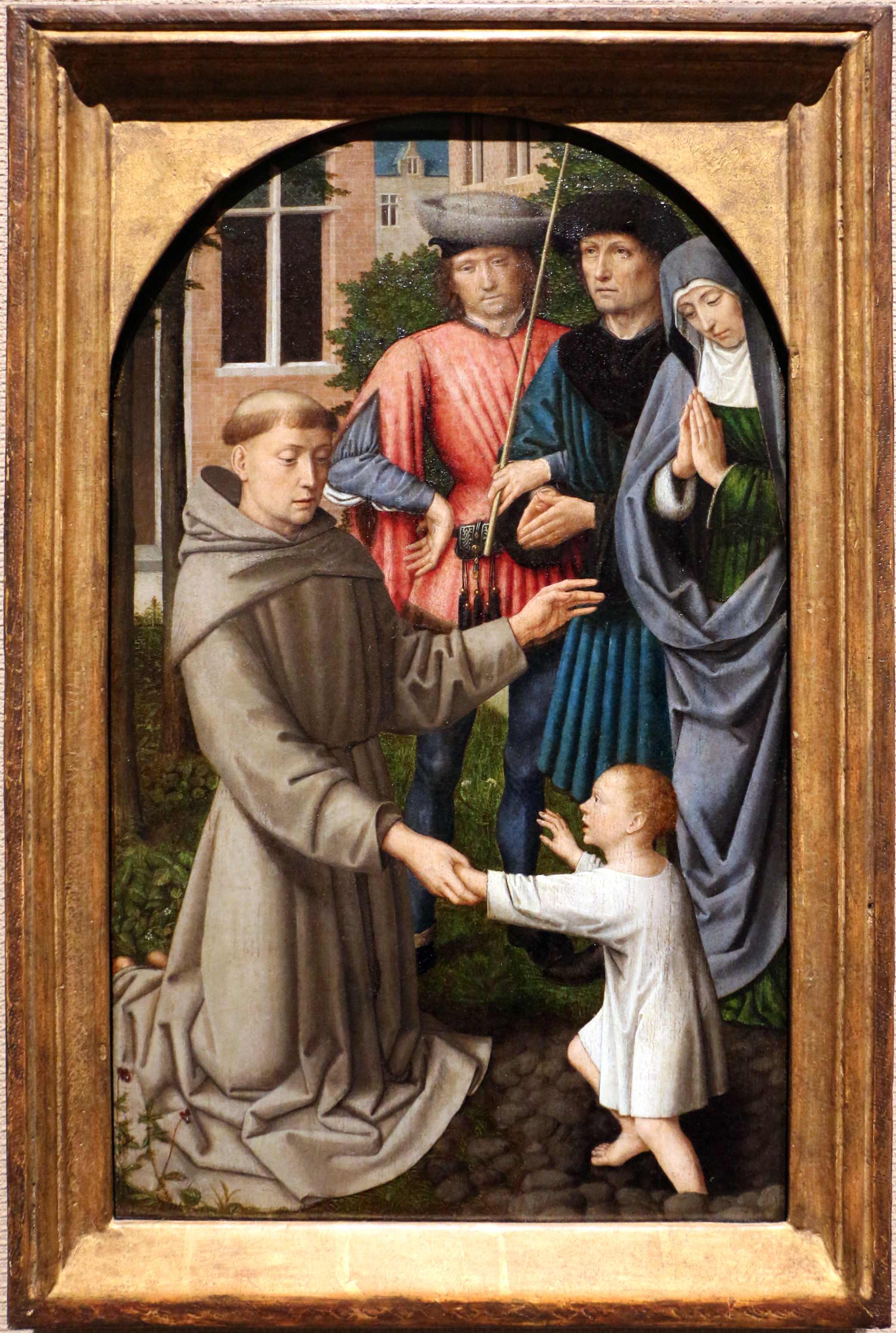 Paintings in the Toledo Museum of Art